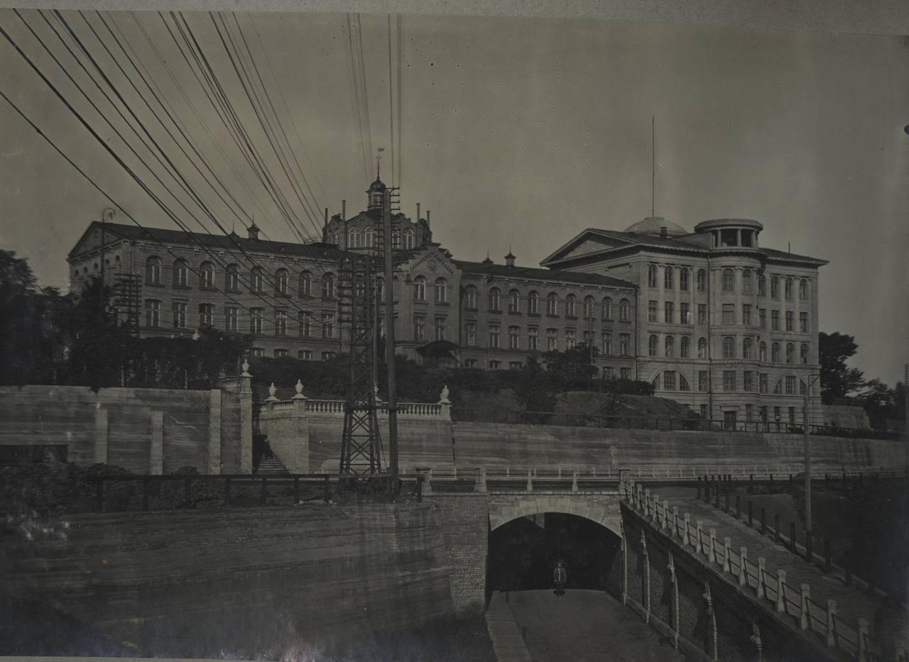 Central office DMK (Kamianske)